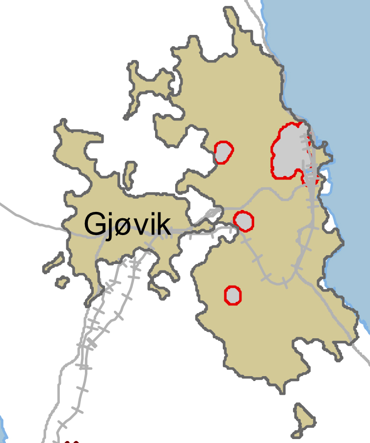 Urban area of Gjøvik 2005